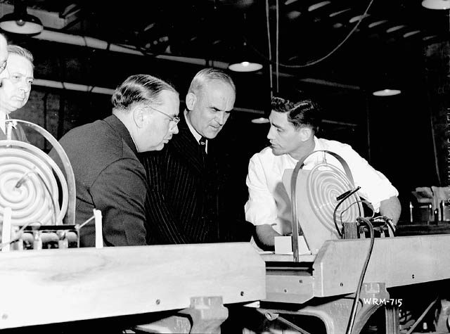 C.D. Howe (NFB image)